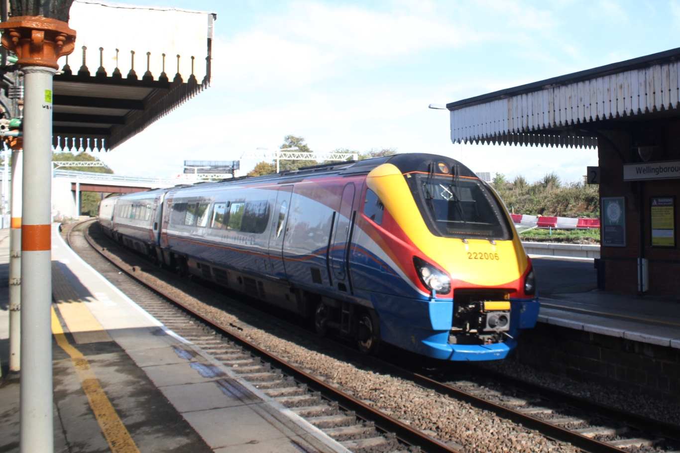 'Meridian' 222006 passes through Wellingborough with an East Midlands Railway service bound for London St Pancras.